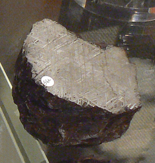 Muonionalusta meteorite, endcut